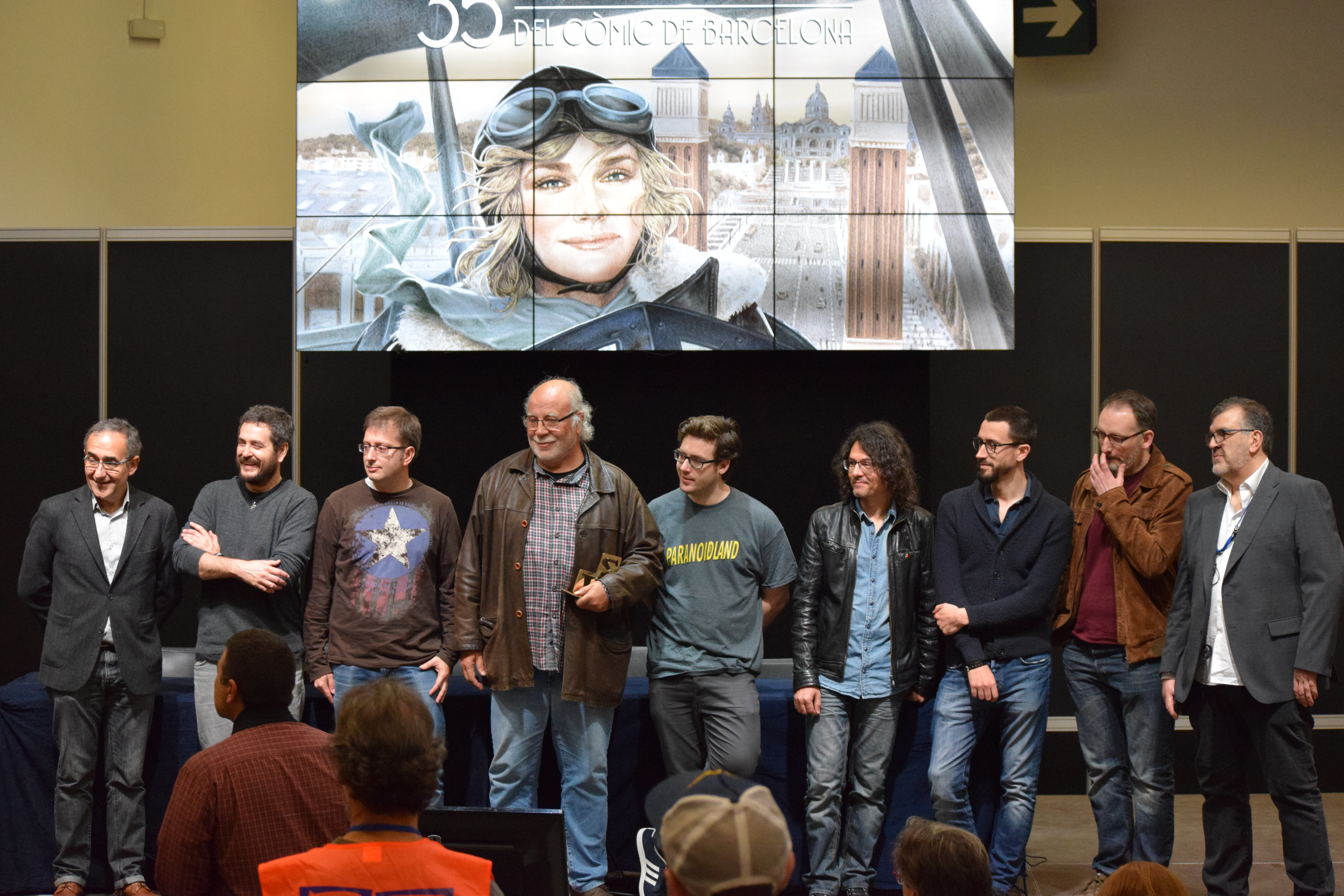 All the award winners of the Barcelona International Comic Fair 2017. From left to right: Patrici Tixis (Ficomic president), Jacobo Márquez (Fantasy West), Carlos Díaz Correia (Fantasy West), Josep Maria Martín Sauri (Gran Premi del Saló), Bouman (Paranoidland), Jaime Martín (Jamais je n'aurai 20 ans), Javi Rey (Intemperie), Gabriel Hernandez Walta (The Vision) and Carles Santamaría (director of the Barcelona Saló).